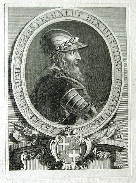 copper engraving, portrait of Guillaume de Chateauneuf, entitled FRERE GUILLAUME DE CHASTEAUNEUF DIX-HUITIEME GRD MAITRE